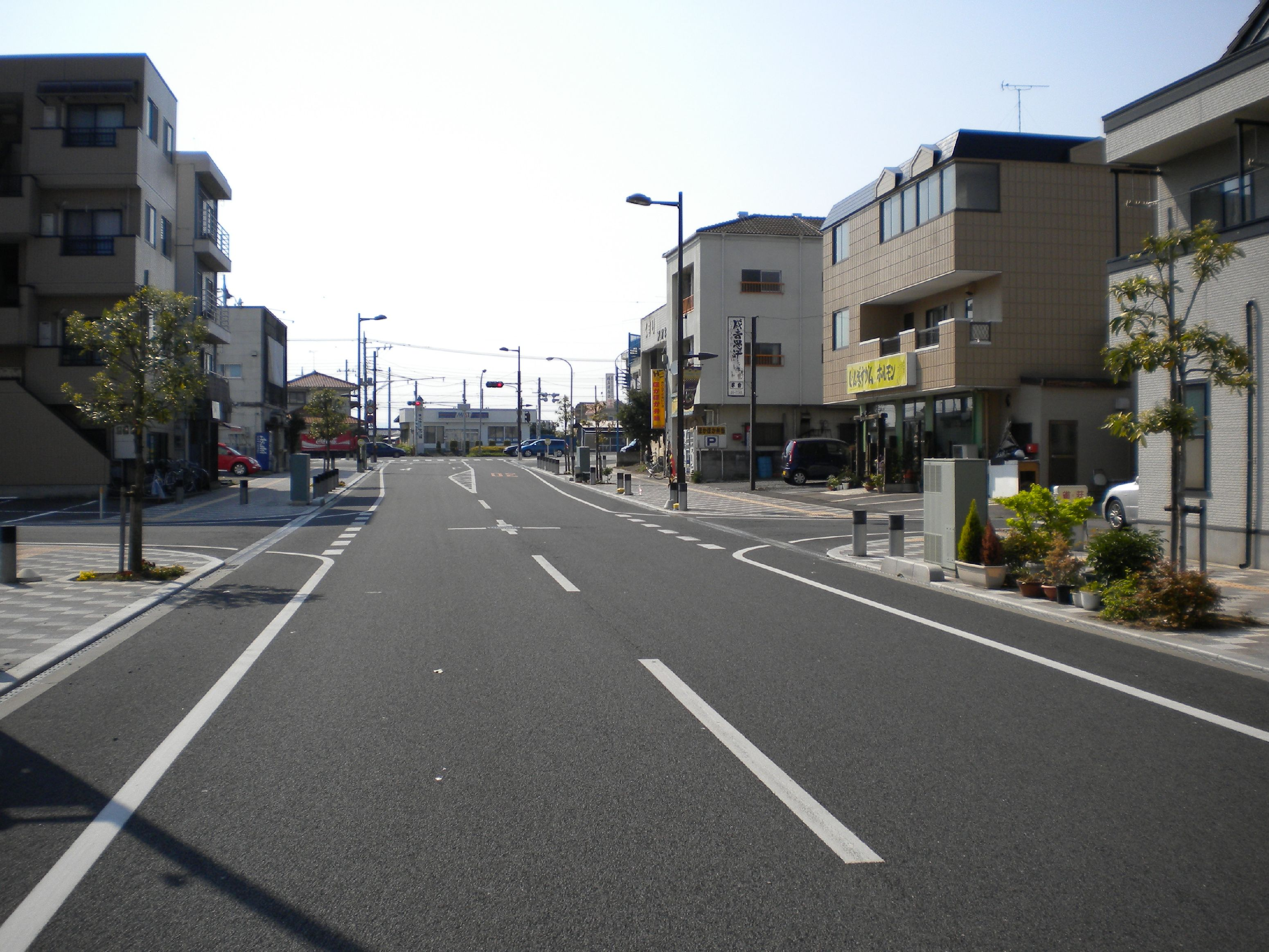 Tochigi prefectural road No.302 on Mibu town